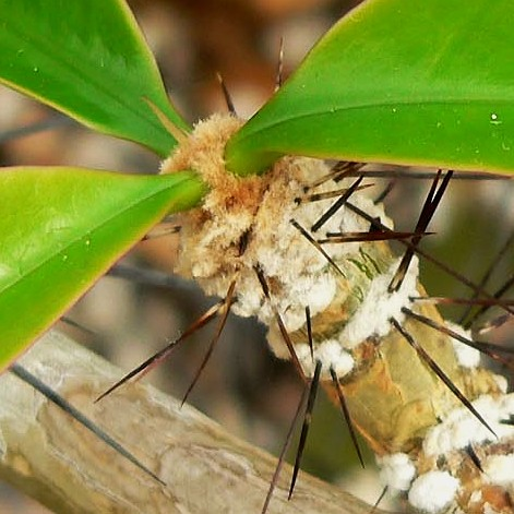 Part of Image:Pereskia tampicana 1.jpg. Photo of Pereskia tampicana at the University of California Botanical Garden, taken March 2006 by User:Stan Shebs